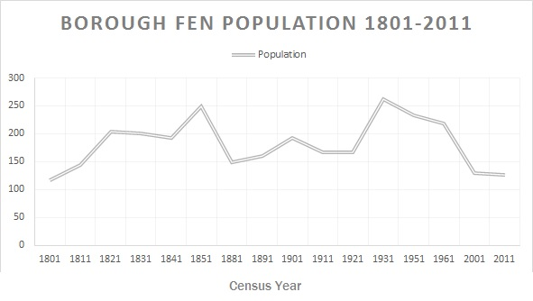 This graph shows the population statistics for Borough Fen, Cambridgeshire, England. Specifically using the available Census data between 1801-2011.